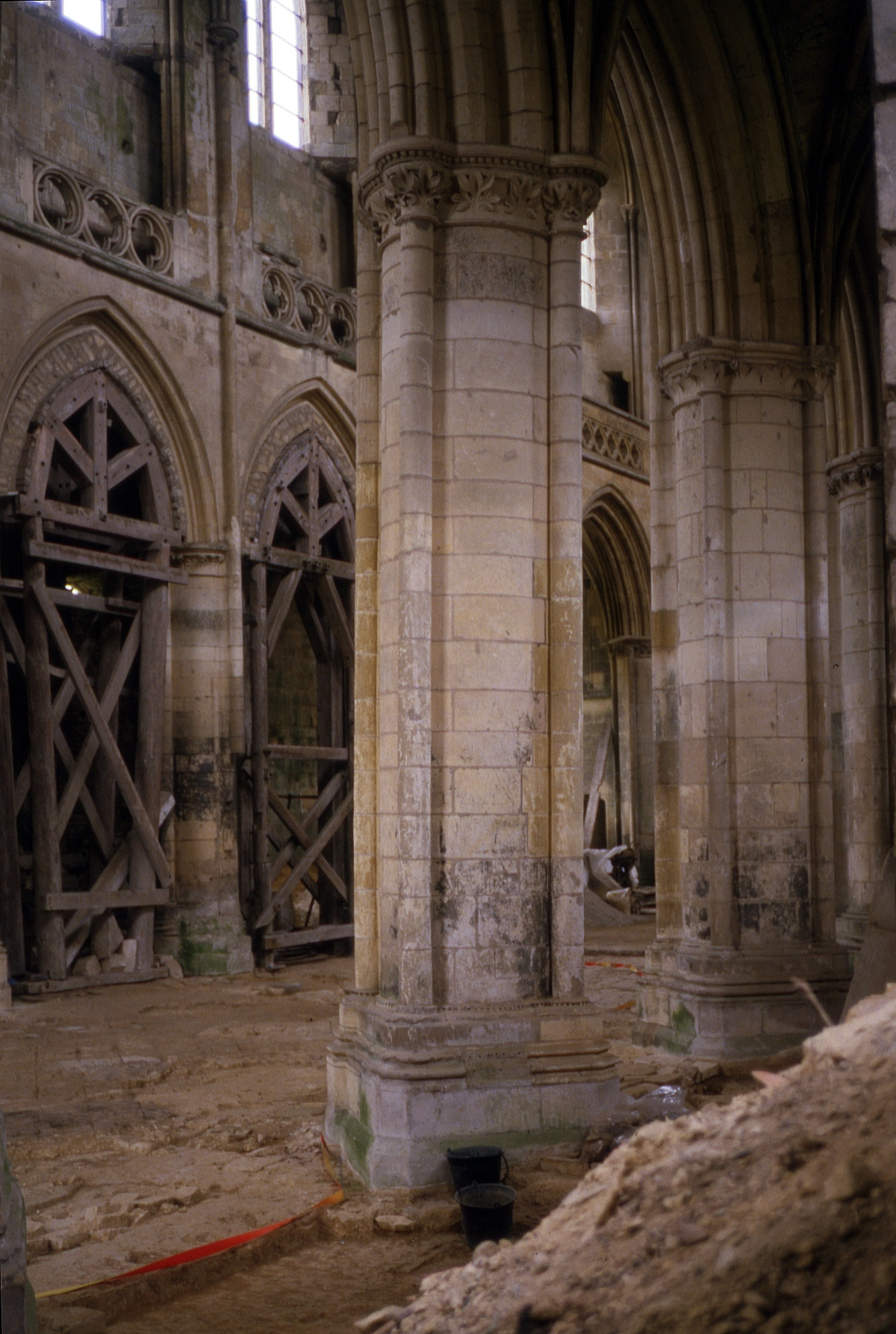 Excavations of the nave of the Ardenne abbey (Caen, Calvados, Normandy, France) in June 1988